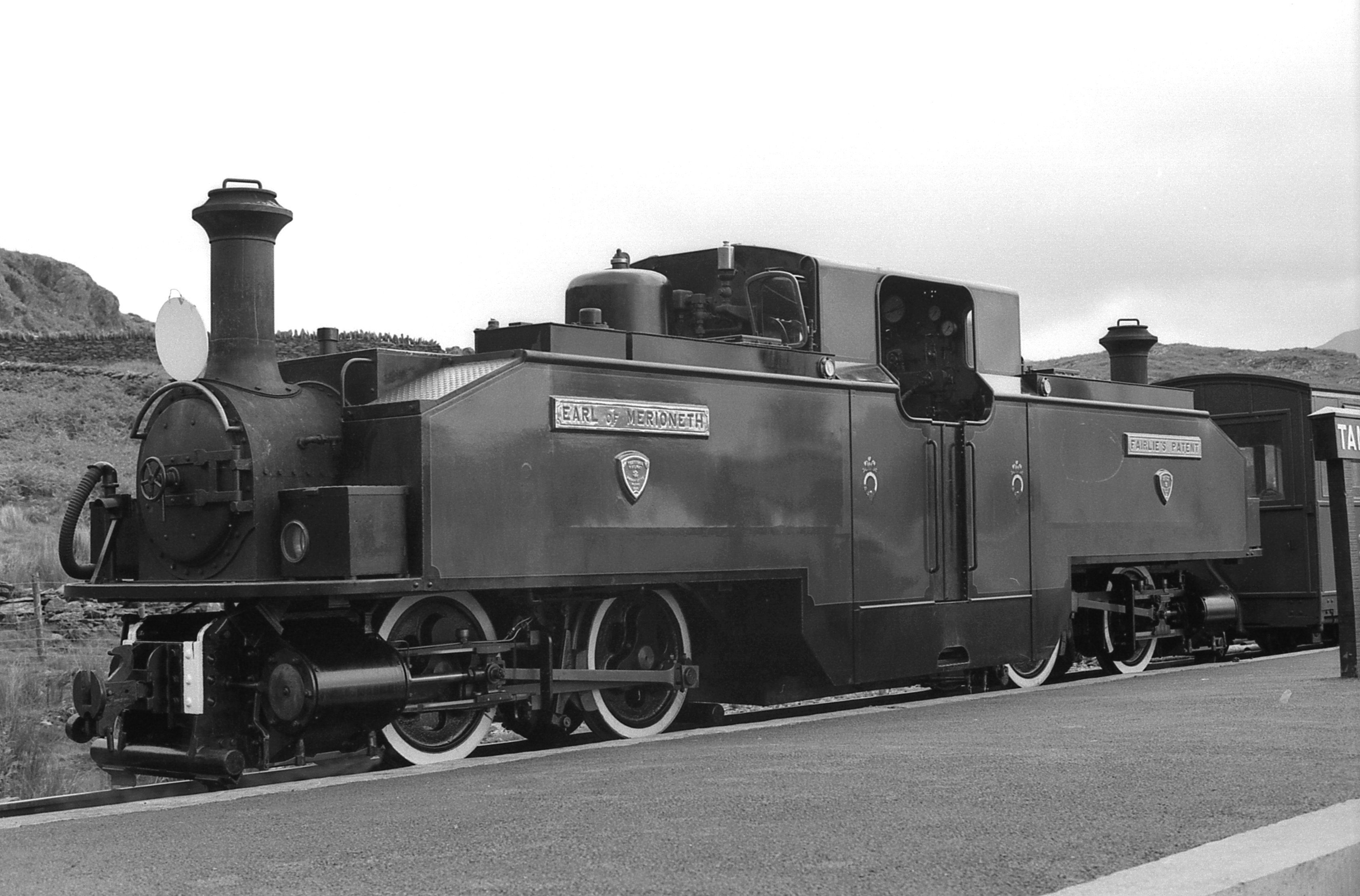 Another shot of the Earl at Tan Y Grisau on the Ffestiniog Railway. 8/6/1981 Camera: Olympus OM1 35mm SLR.